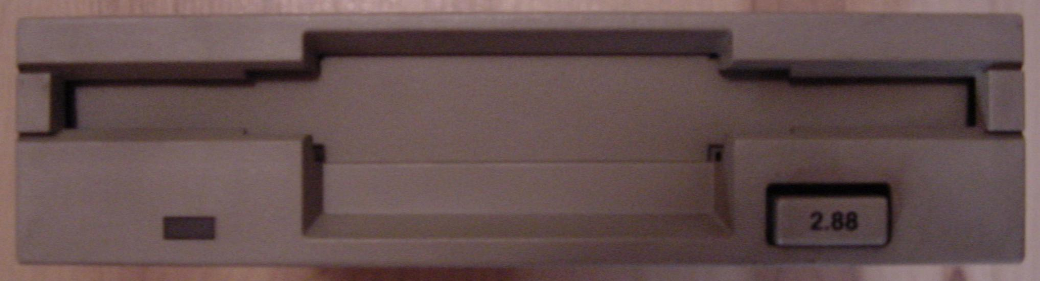 2.88 MB floppy disk drive